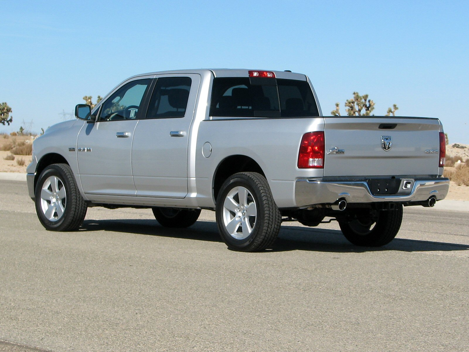 2009 Dodge RAM 1500 SLT 4-door pickup, photographed in USA.